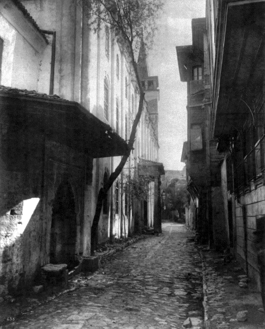 A street in Galata, Constantinople.